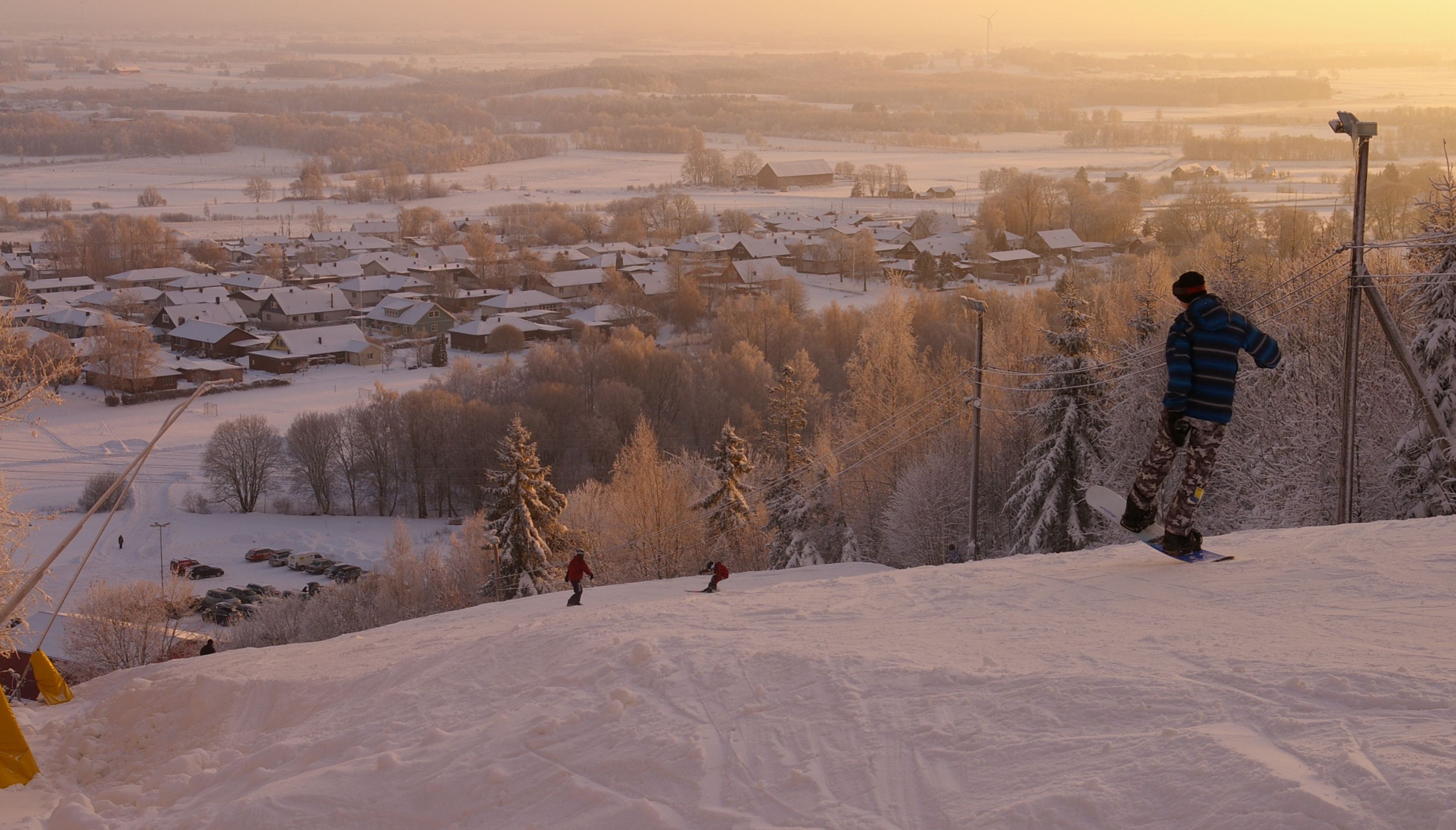 Snowboarding down Mösseberg in Falköping Sweden.